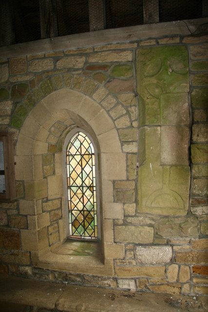 Inside the south porch of All Saints' parish church, near Boroughbridge, North Yorkshire. The porch was rebuilt in 1870 to a design by George Gilbert Scott, with a two-centred outer arch and two side lights.Six ancient worked stones are incorporated into the walls. One is part of a small octagonal shaft. Another is a small early moulded capital. Another is a base. Another is a piece of edge roll mould. Another is a Saxon stone with interlacing pattern. The largest stone is a 13th-century coffin slab.